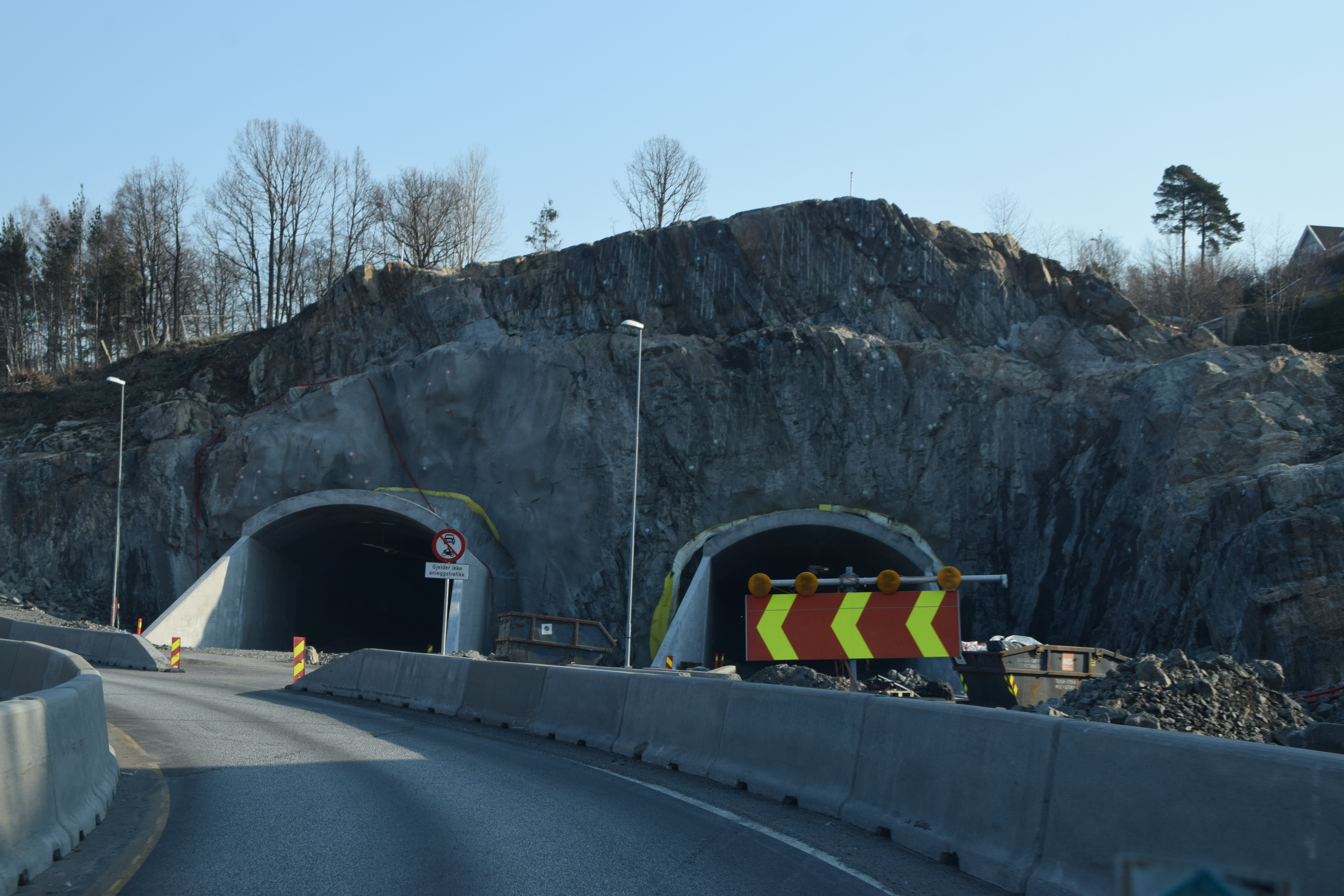 Torsbuåsen tunnel